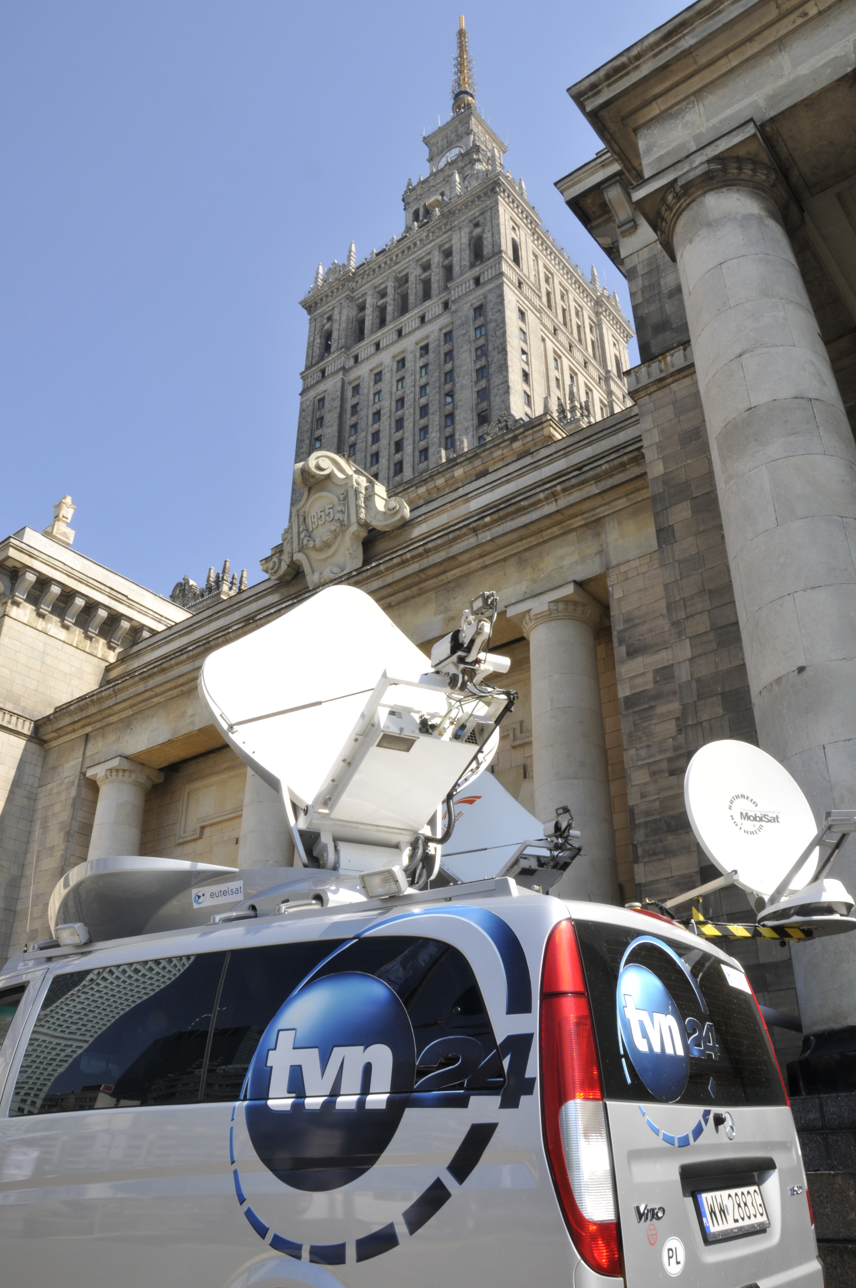 EPP Congress Warsaw